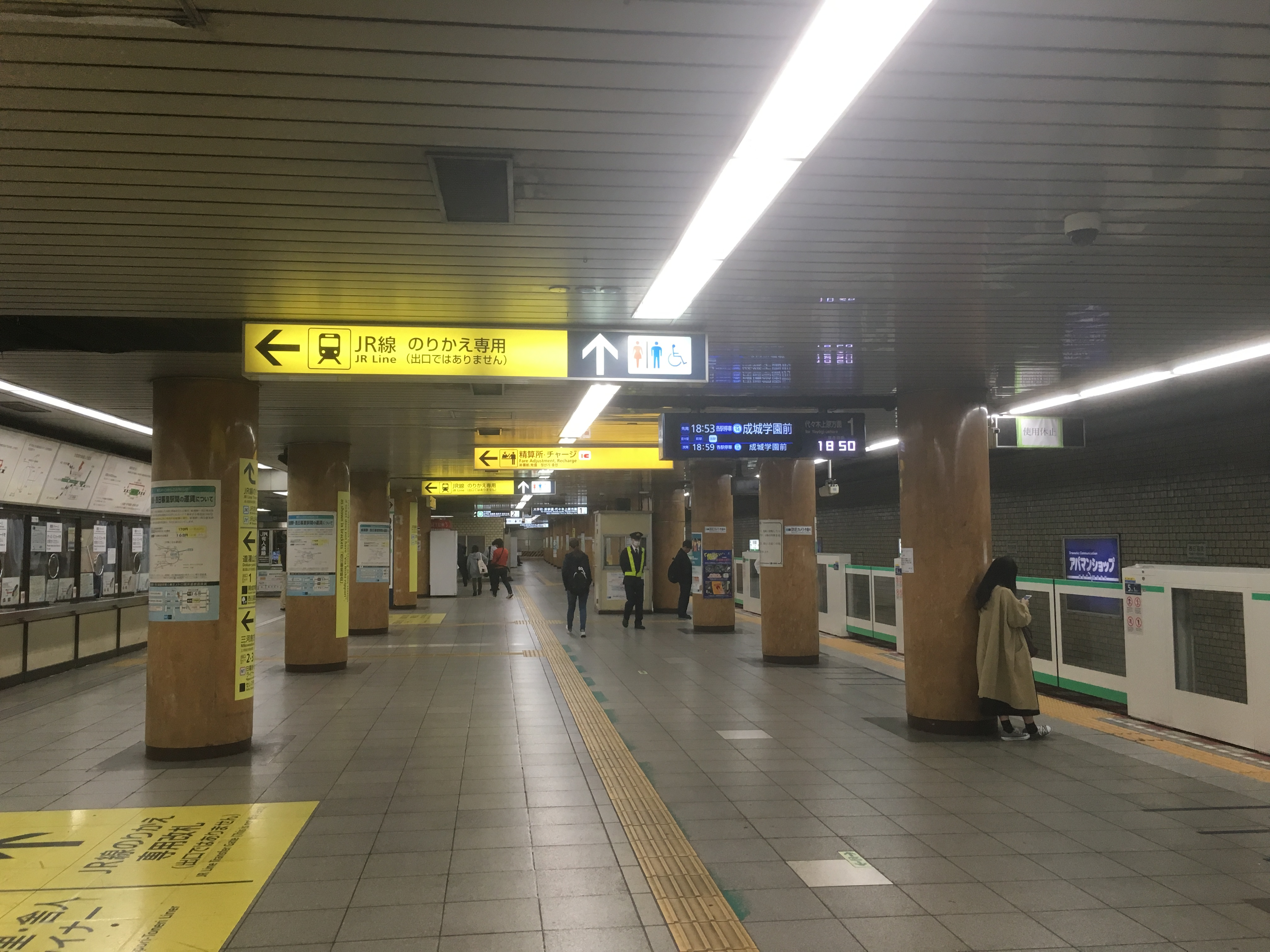 千代田線、西日暮里駅のホーム (Chiyoda Line, Nishi-Nippori Station platforms)